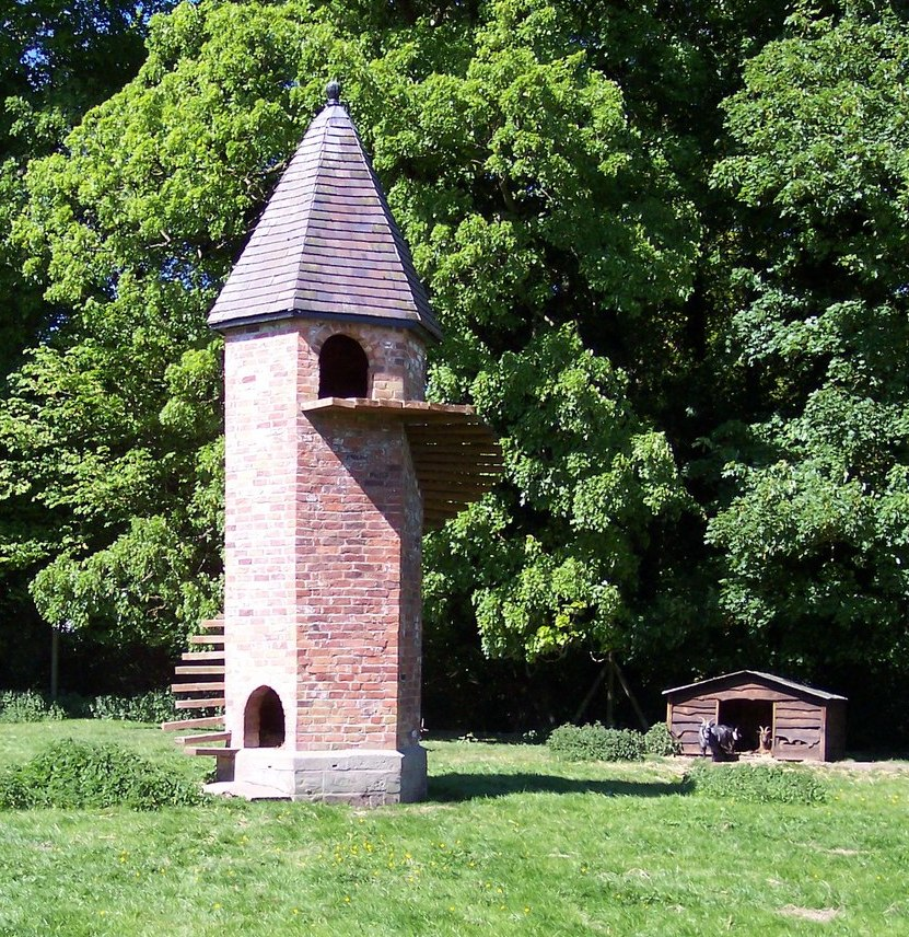 The goat loft at Scotch Farm Cholmondeley Castle